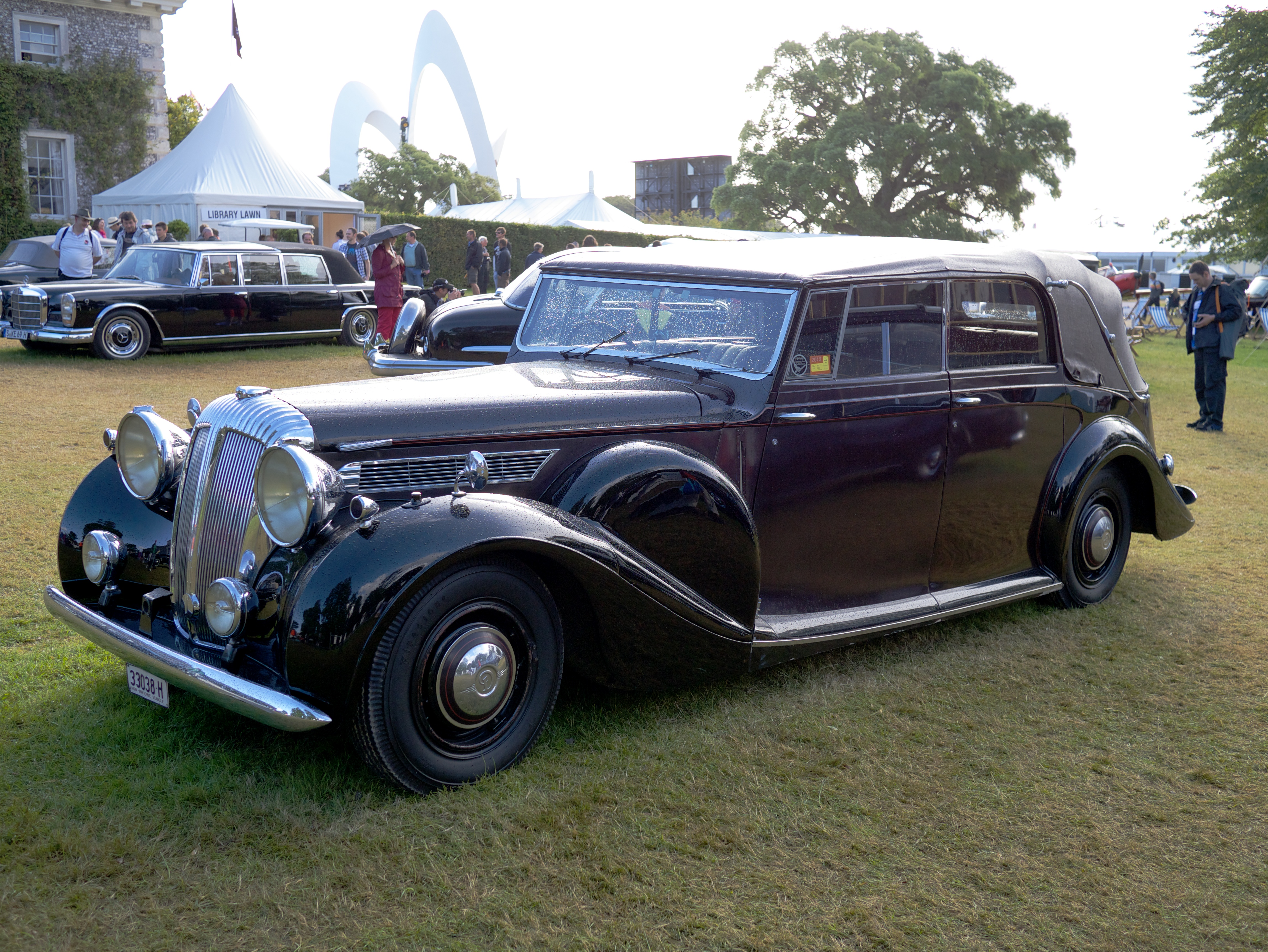 Daimler 36 h.p. All Weather Tourer 1948 Goodwood Festival of Speed 2012